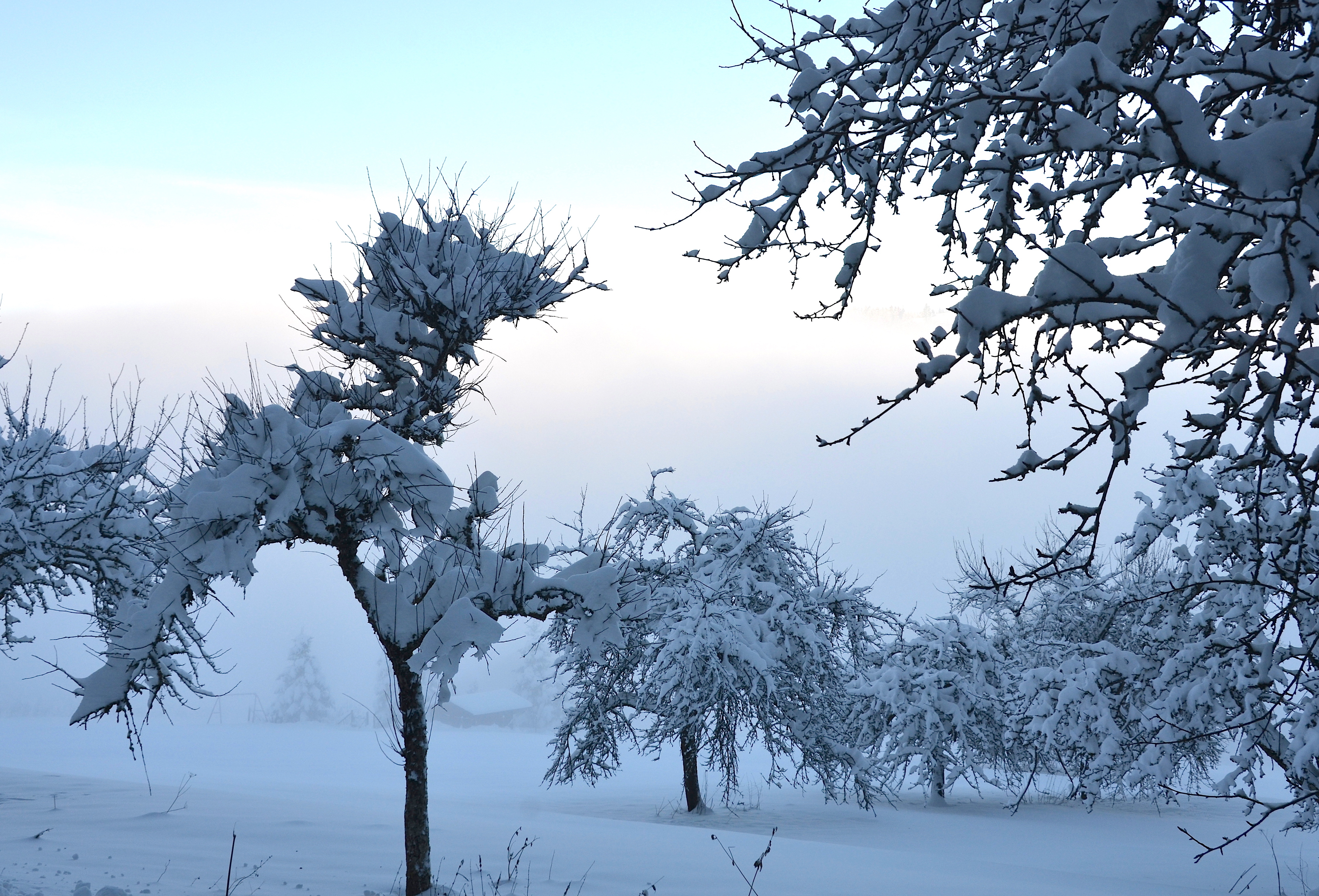 Snow packed trees